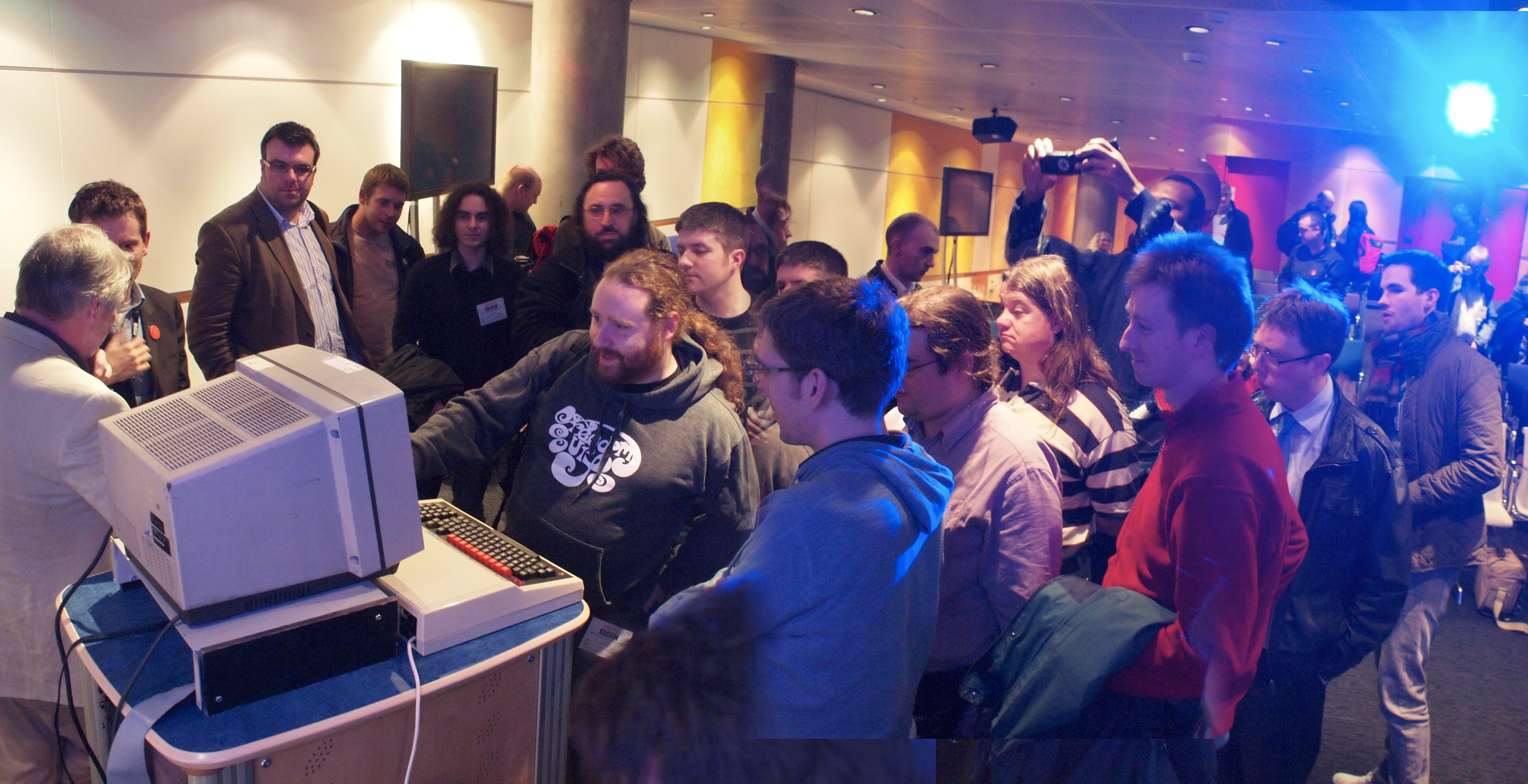 Genuine excitement to see The Domesday Machine in action.